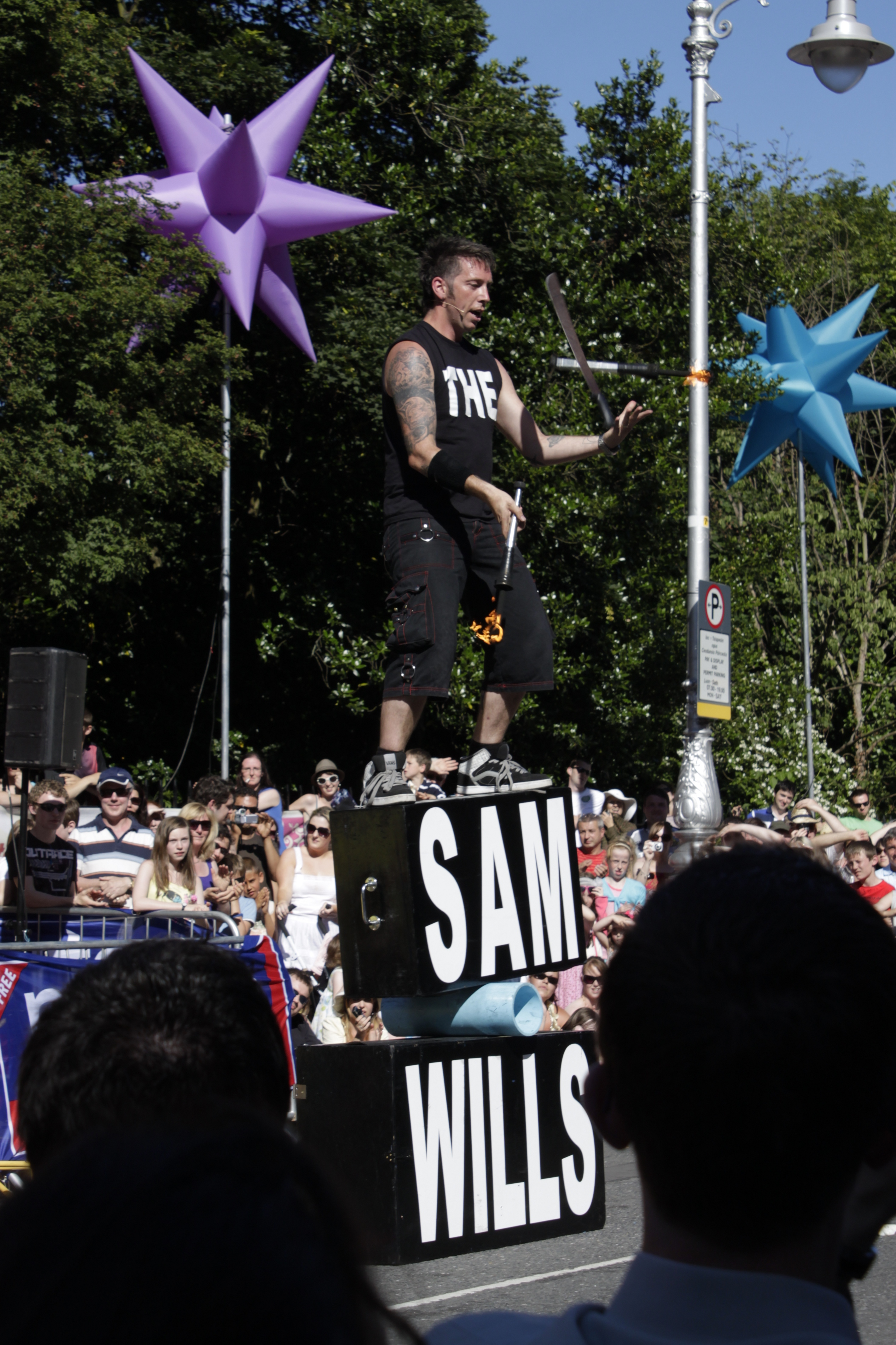 From New Zealand, this was in my opinion, the best performance I saw this year. Here is using two clubs in fire and one machete